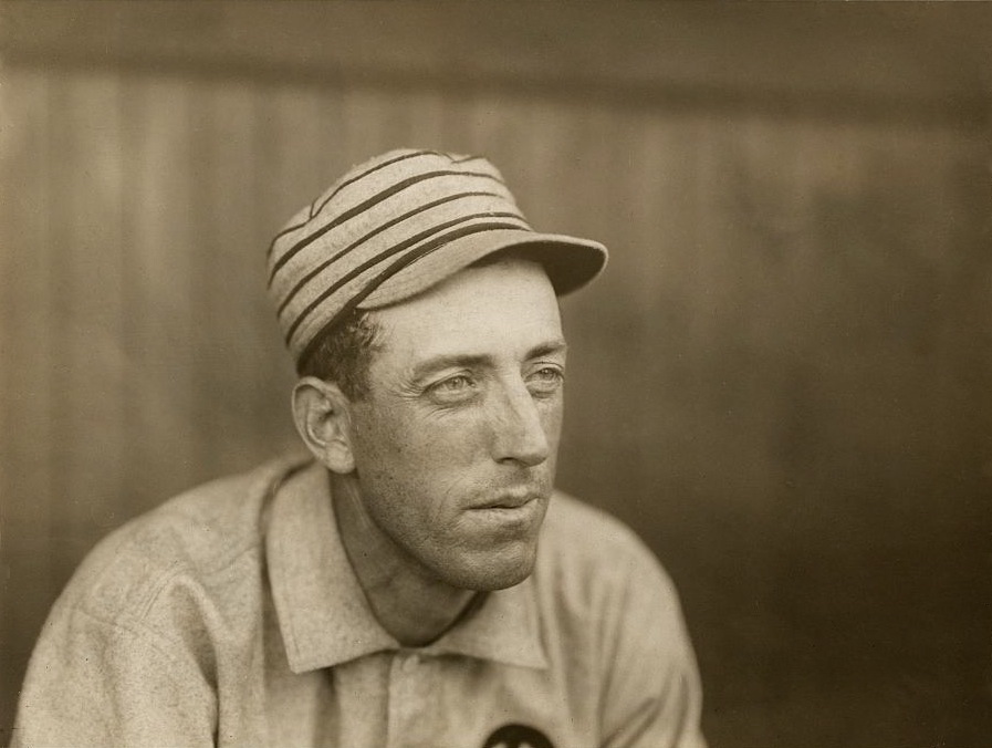 Photograph shows Eddie (Edward Stewart) Plank, pitcher for the Philadelphia Athletics, head-and-shoulders portrait, facing slightly right. Photo courtesy of the Library of Congress.